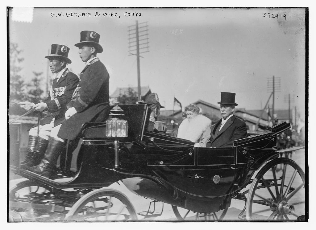 George Wilkins Guthrie (September 5, 1848 – March 8, 1917) with his wife, Florence Julia Howe Guthrie in Japan in 1915